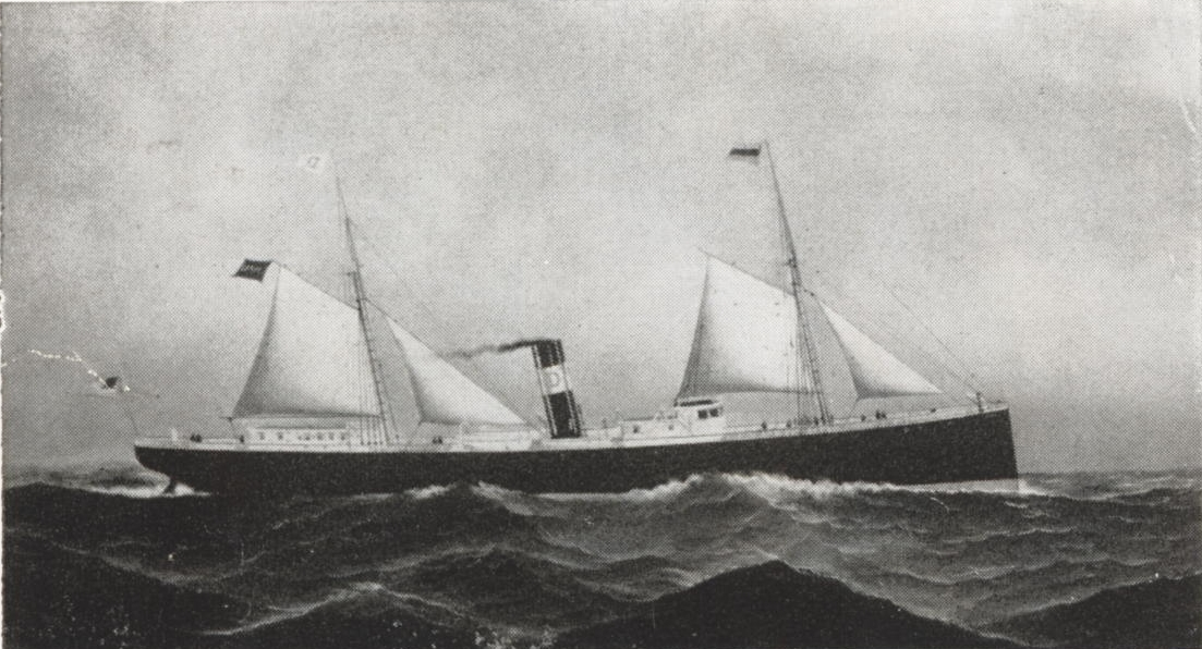 This is an oil painting of the SS Caracas (1881) from the Casa Boulton in Caracas, Venezuela. Since Caracas existed between 1881 and 1888, and this oil painting is said to pre-date 1900, this artwork is in the public domain as it was published before January 1, 1923.